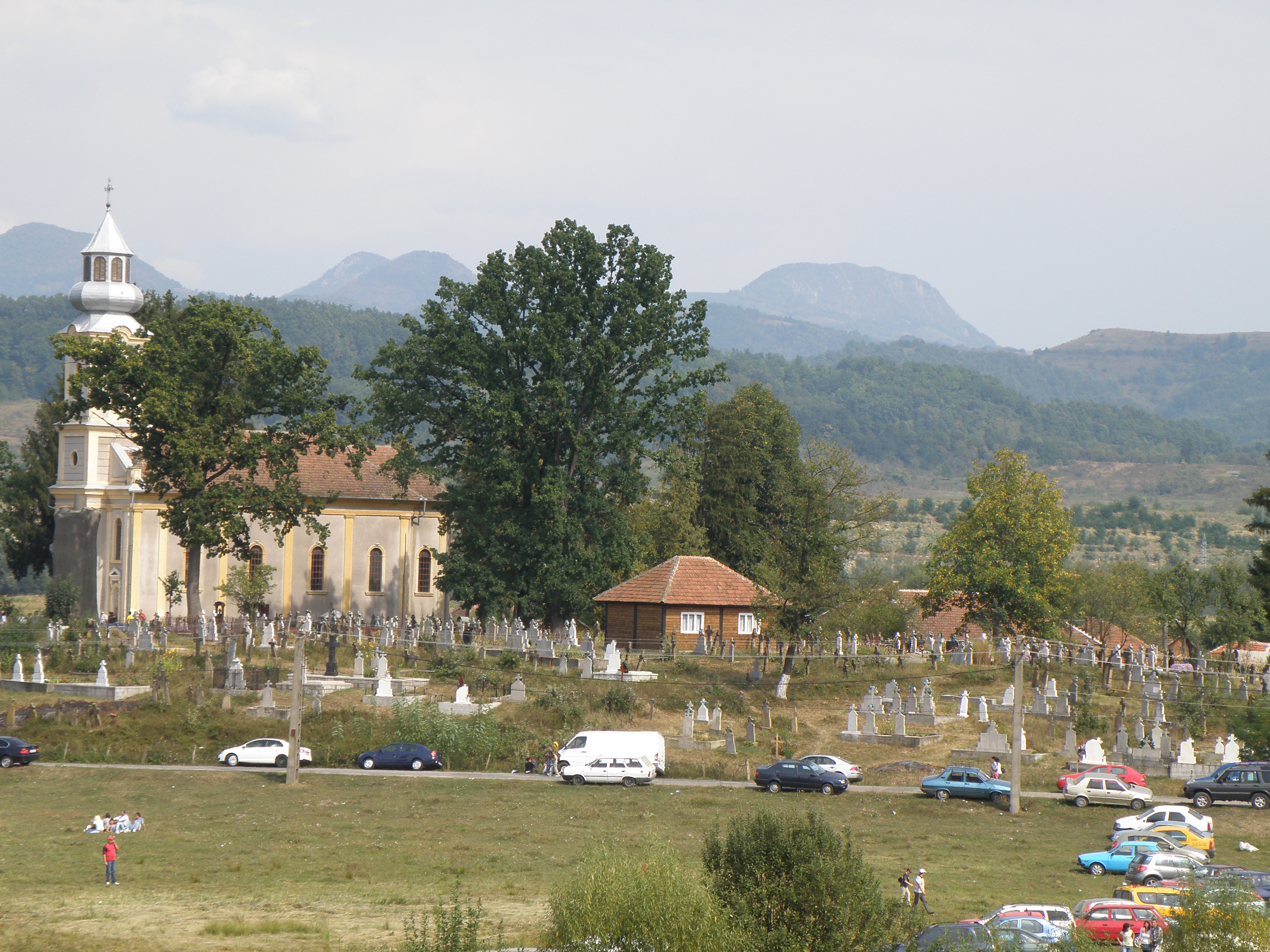 Foto from Tebea